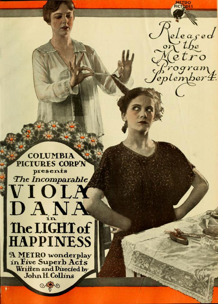 Advertisement in Moving Picture World for the American film The Light of Happiness (1916).